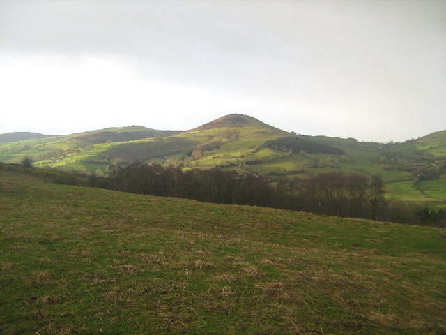 Looking towards Moel Gyw